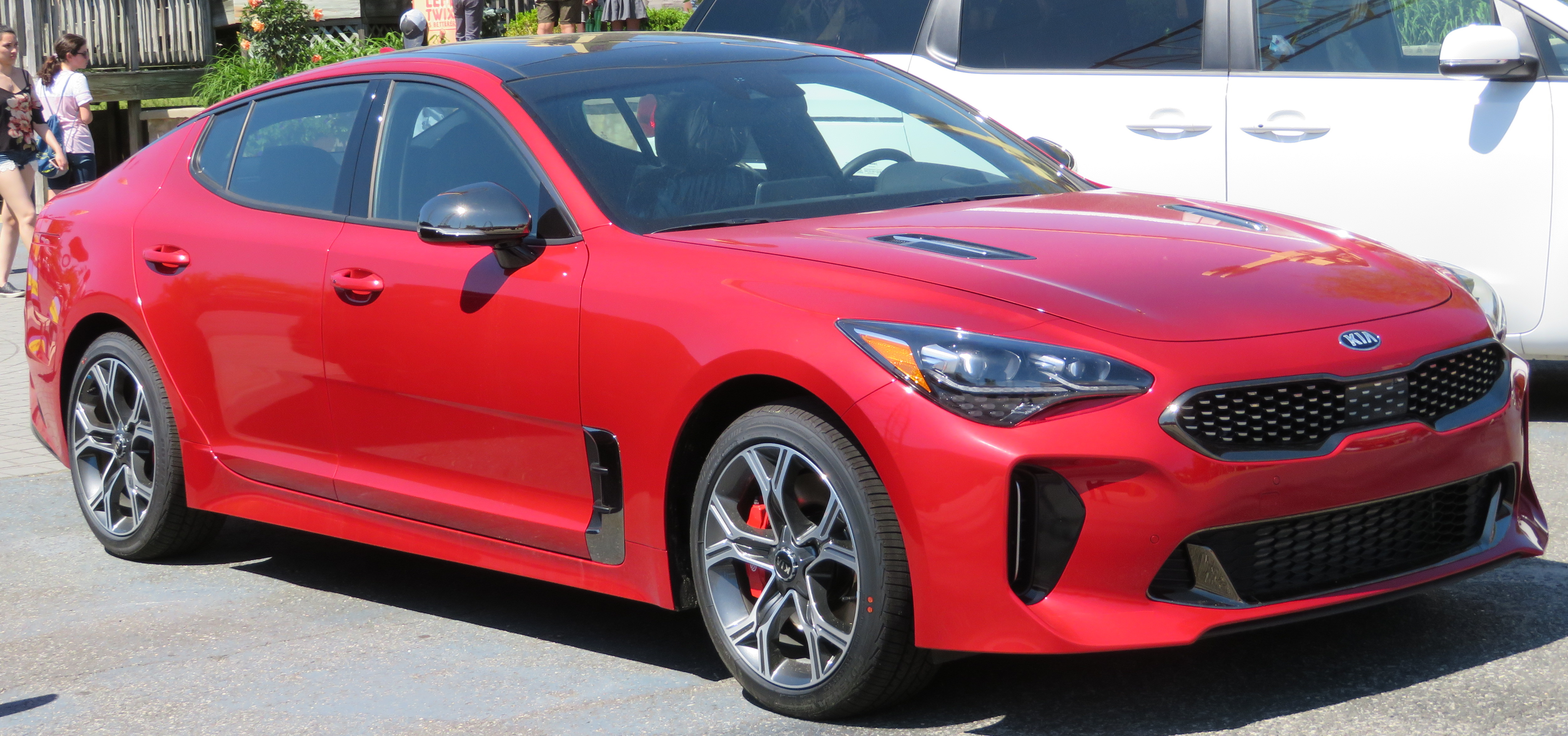 Has a Twin Turbo V6 Engine, Photographed in Six Flags Amusement Park(Sponsored), Jackson, New Jersey